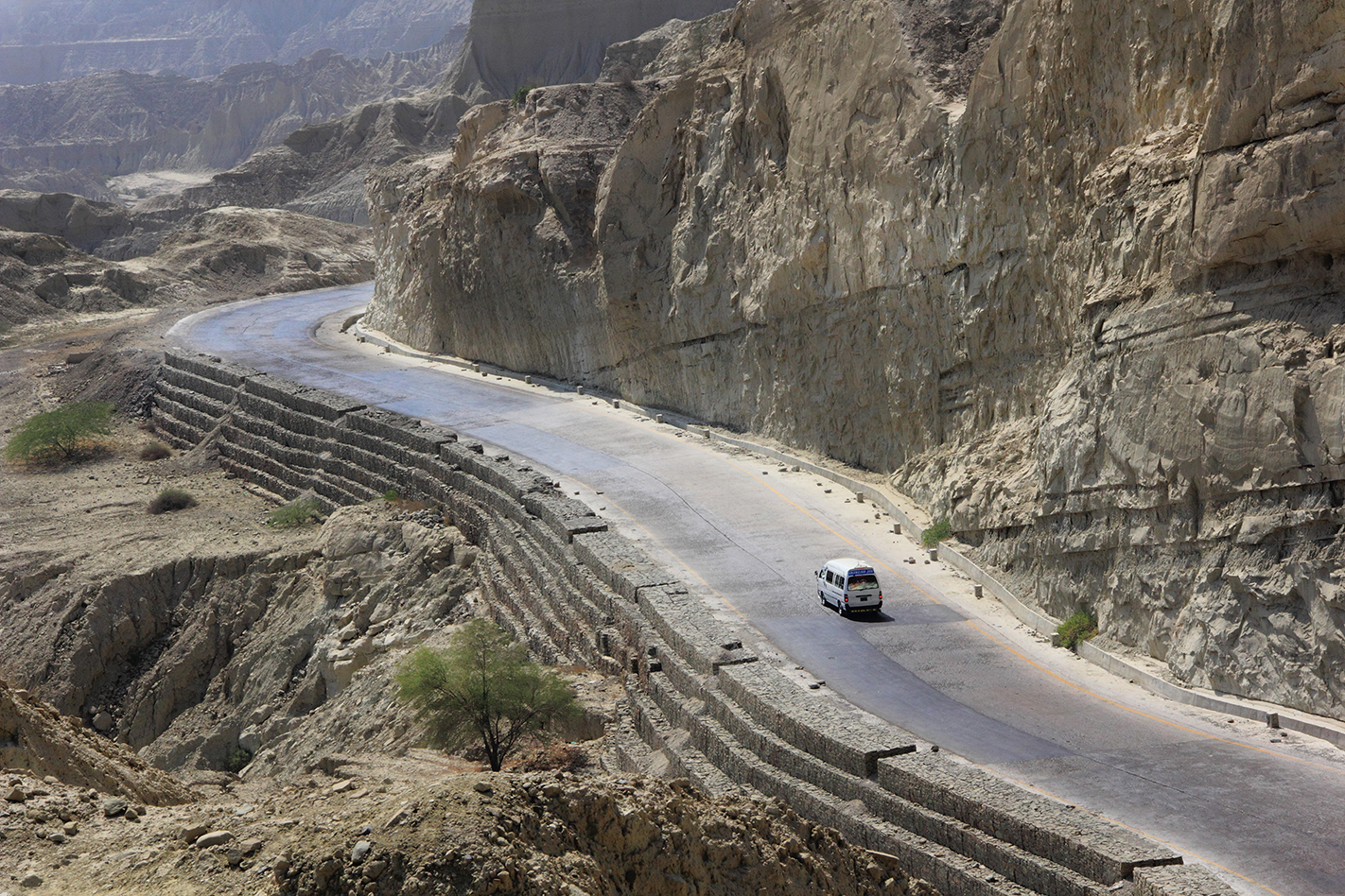 Hingol National Park or Hungol National Park covers an area of 1,650 square kilometres and is the largest National Park in Pakistan. It was established in 1988. Well this place is known as Hingol located in south east Pakistan region of Balochistan which until recent was home to extreme separatist which made this place unaccessible to normal public due to dangers of being abducted by separatist who appose the government ,the fact that this particular region is home to a lots beautiful places which have not been explored by local or international people which made this region a must go location for explorers and photographers , recently a military operation lead to peace in this region which in return gateways to explore Balochistan The Hidden Paradise pf Pakistan